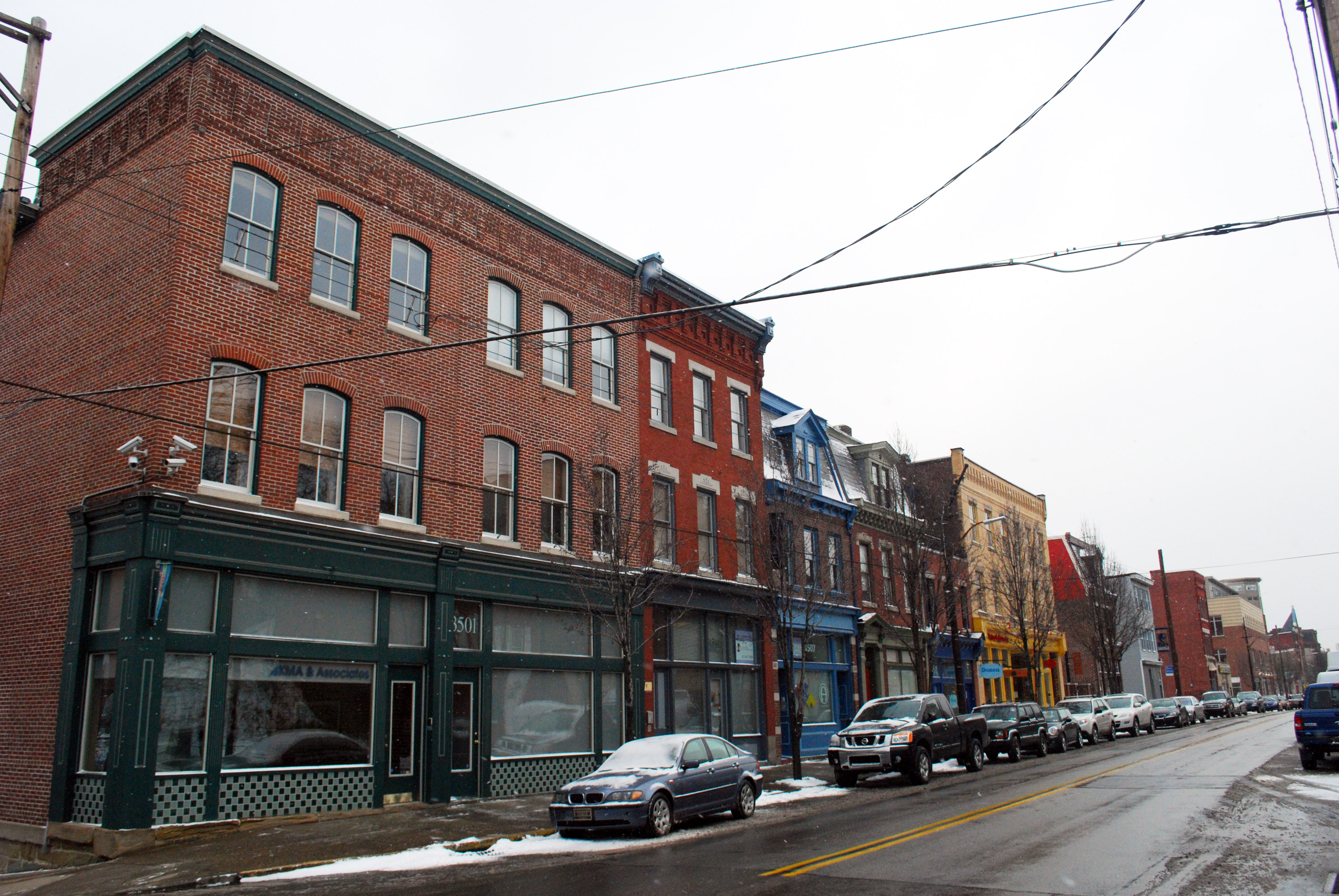 A mix of shops and professional offices in Lawrenceville (Pittsburgh).